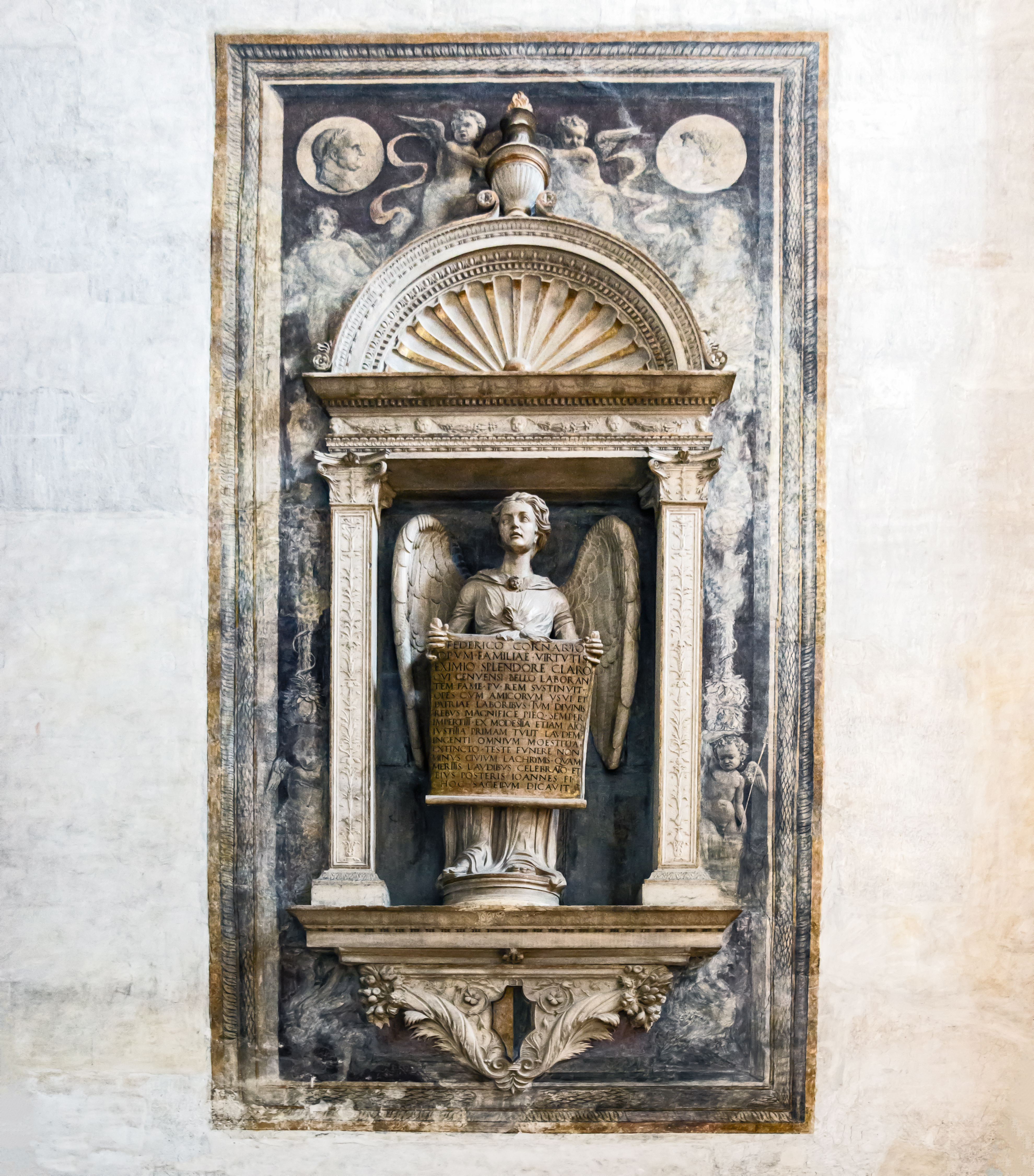 Santa Maria Gloriosa dei Frari. The Corner chapel. The monument to Federico Corner awarded to Jacomo Padovano. The angel holds a cartridge that praised Federico Corner who offered his property and courage to save Venice from the attack of Gene at the War of Chioggia. The frescoes decorations are attributed to Andrea Mantegna.